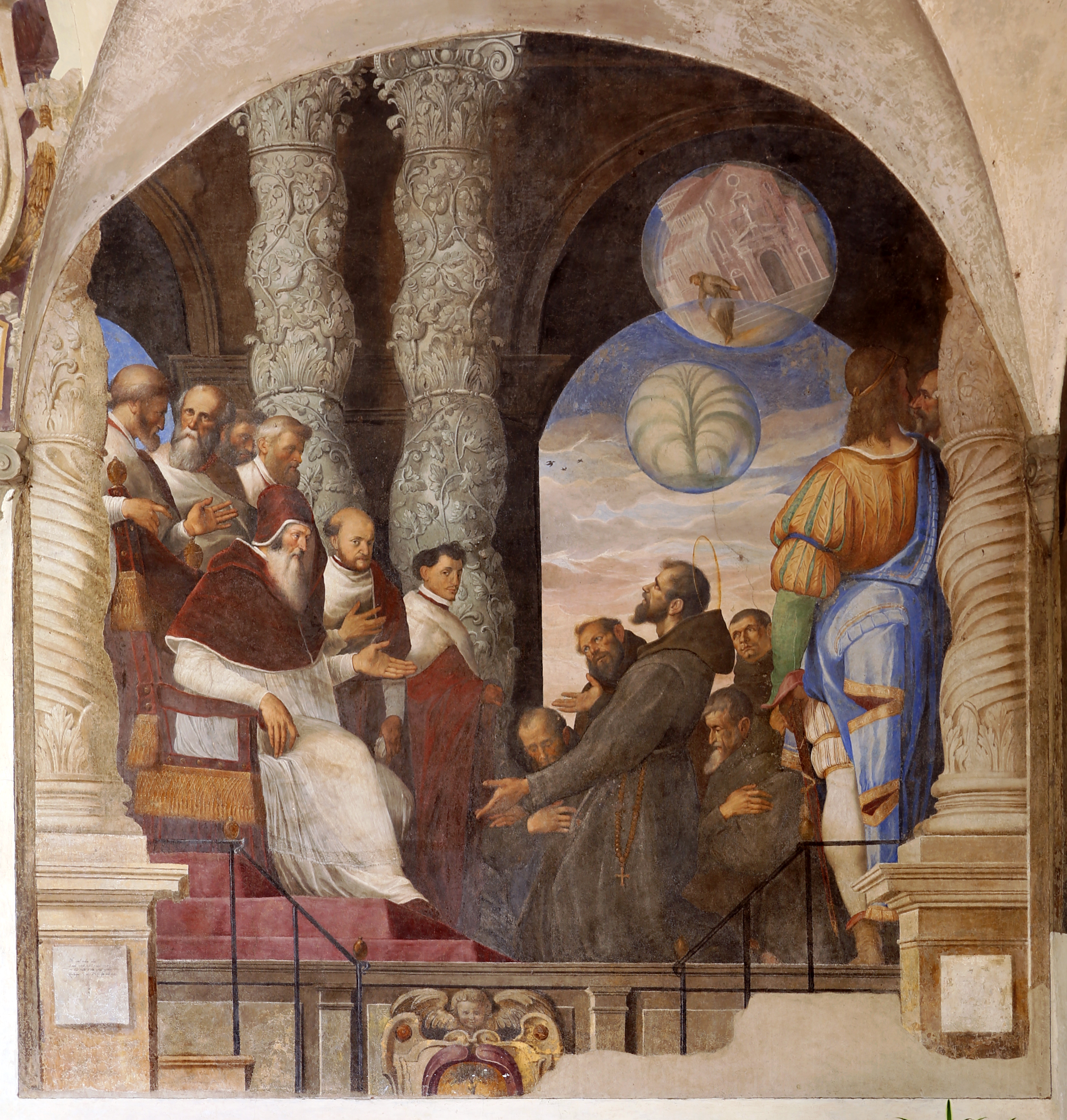 Ognissanti (Florence) - Cloister - Stories of Saint Francis by Jacopo Ligozzi